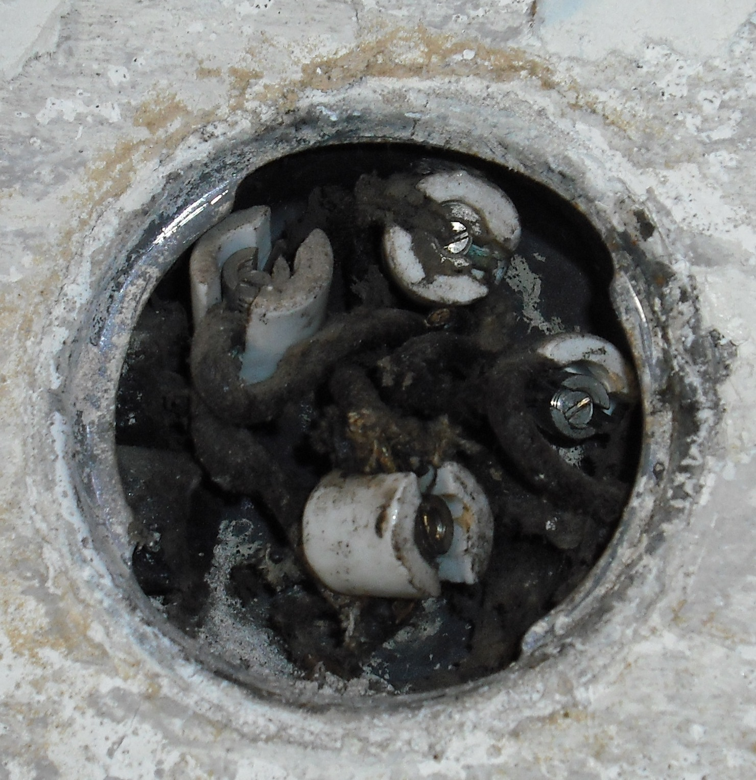 Old junction box. Wire insulated with cotton, screw terminals insulated with porcelain.